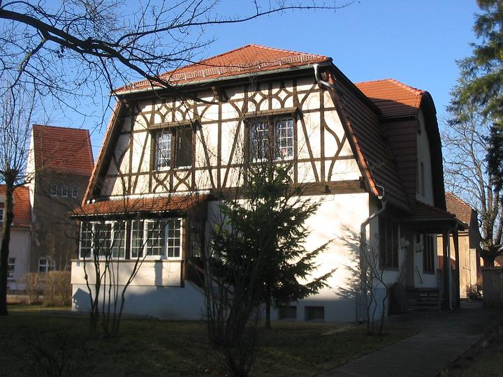 Former hunting lodge of family Wertheim in Groß Schulzendorf. Today Schule am Wald (german for: school at forest), school for Special education of children with Mental retardation. The village Groß Schulzendorf is a part of the town Ludwigsfelde in the district Teltow-Fläming, state Brandenburg, Germany.